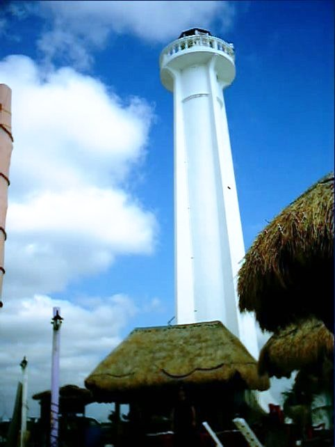 Ground view of the lighthouse in Mahahual, Quintana Roo, Mexico.